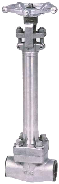 Cryogenic carbon steel socket weld globe valve. Valves and are generally made of plastic or steel, the latter being the most widely used in chemical and petrochemical applications. Steel grades range from the most common type, namely carbon steel, with standard stainless steel being the second most common. Stainless steel alloys, which include nickel or copper are used in applications that require higher corrosion or heat resistance. In such cases, the most commonly used valve configurations -- ball valves, gate valves, check valves, globe valves and butterfly valves -- are often forged or cast as duplex valves, super duplex valves, alloy 20 valves, monel valves, inconel valves, incoloy valves and 254 SMO valves (6Mo valves). Titanium valves are also used in some highly corrosive applications. Titanium is not a stainless steel alloy.